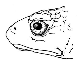 Head shape in lateral view of Osornophryne bufoniformis male, QCAZ 45084.